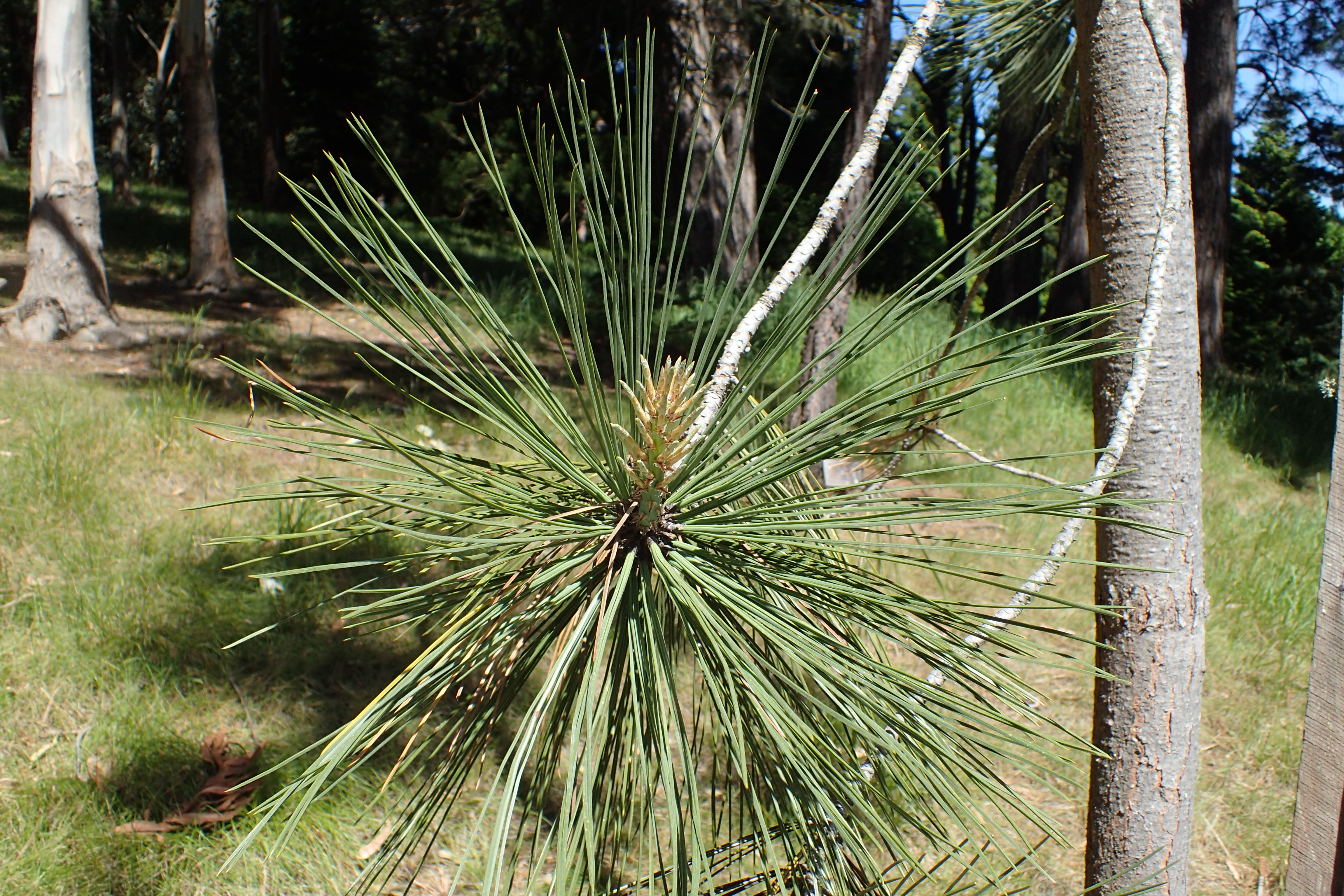 Pinus torreyana in Dunedin Botanic Garden